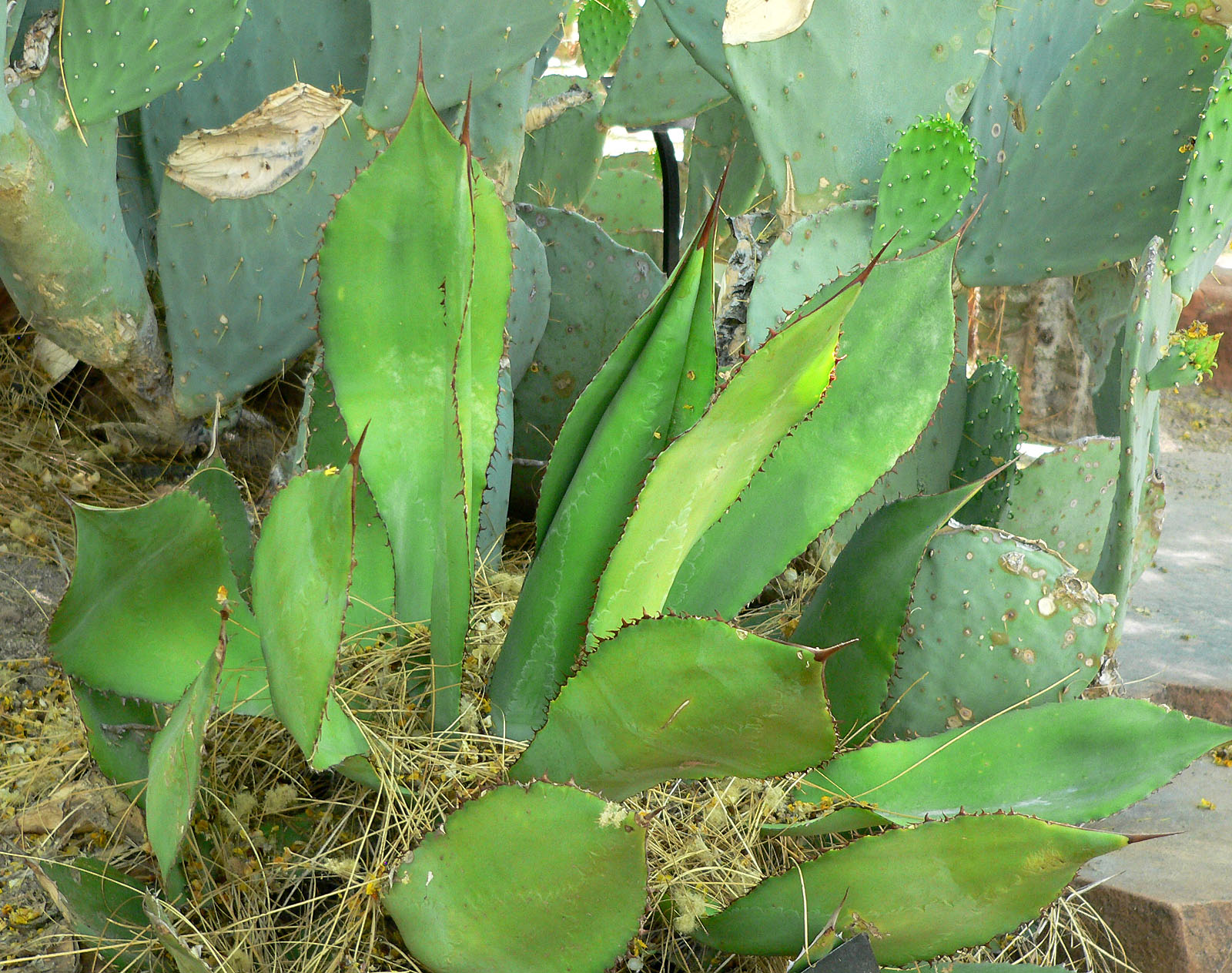 Agave bovicornuta at the Ethel M Botanical Cactus Garden, Las Vegas, Nevada